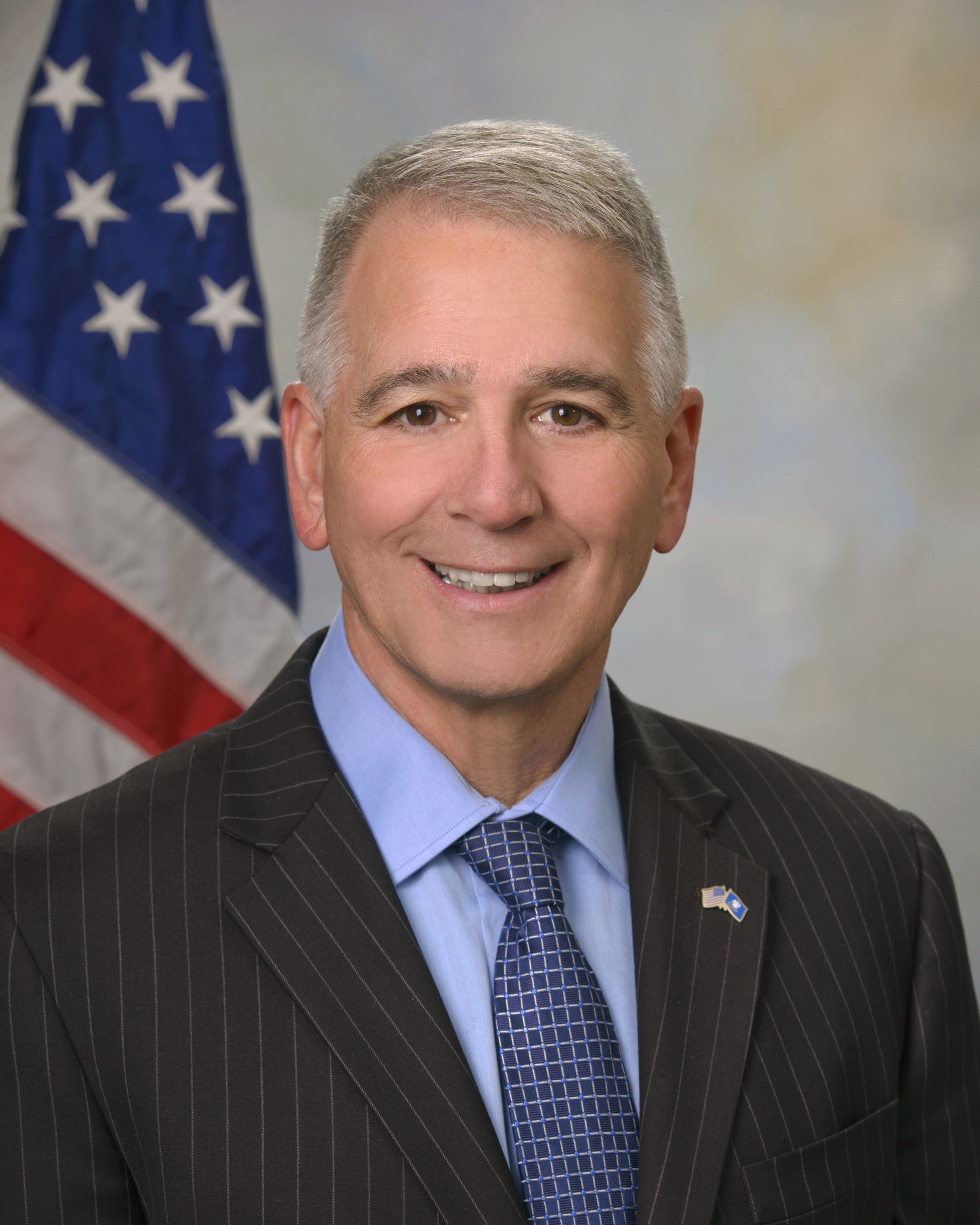 Ralph Abraham official photo, 114th Congress